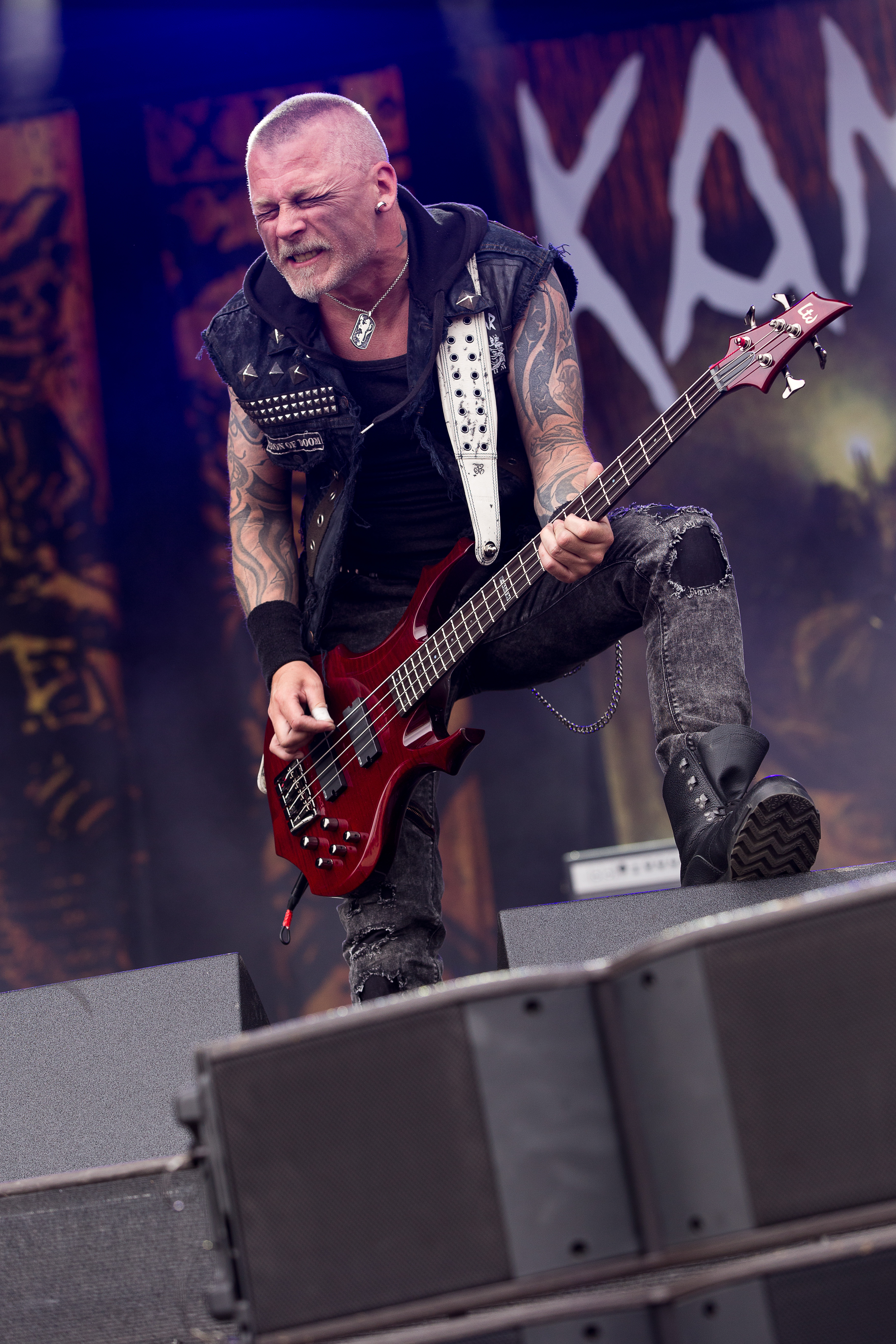 The Norwegian black metal band Kampfar at the Rockharz Open Air 2016 in Ballenstedt/Germany.